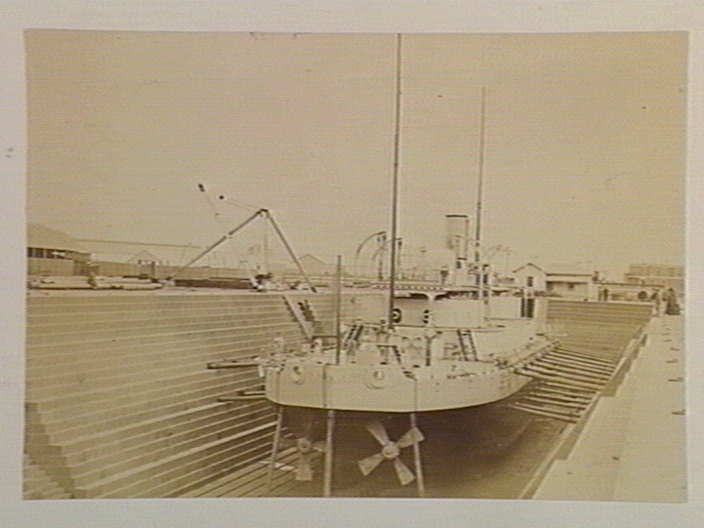 Photograph of Victorian colonial breastwork monitor HMVS Cerberus in drydock at Williamstown, Victoria.